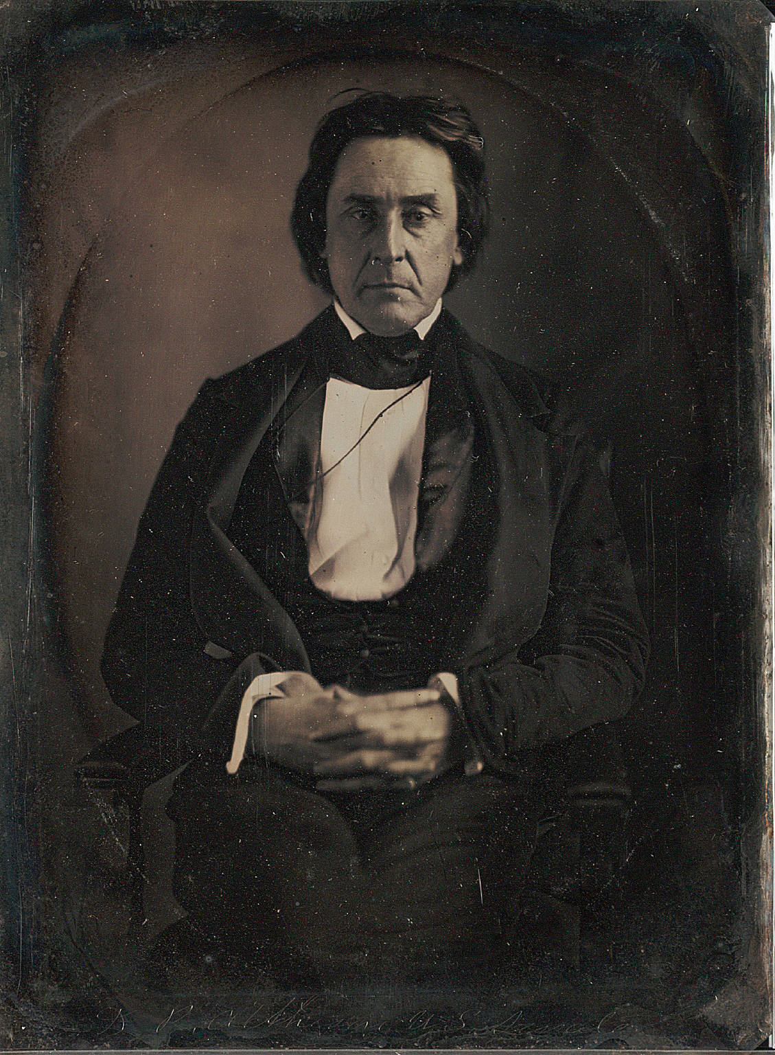 Daguerreotype of Missouri politician David Rice Atchison, taken by photographer Mathew Brady at the United States Capitol at Washington, D.C., March 1849. Courtesy of the Beinecke Rare Book & Manuscript Library, Yale University. [1]